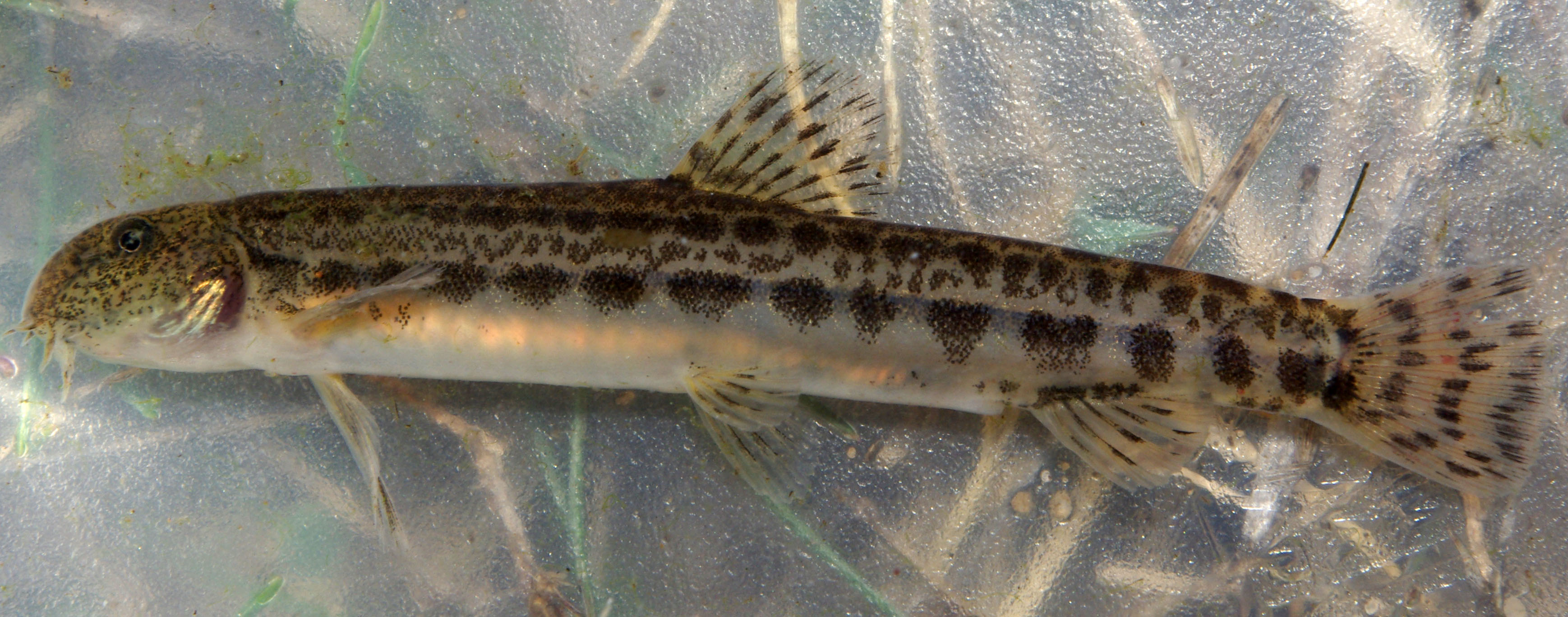 Cobitis paludica. River Duero, Soria (Spain)